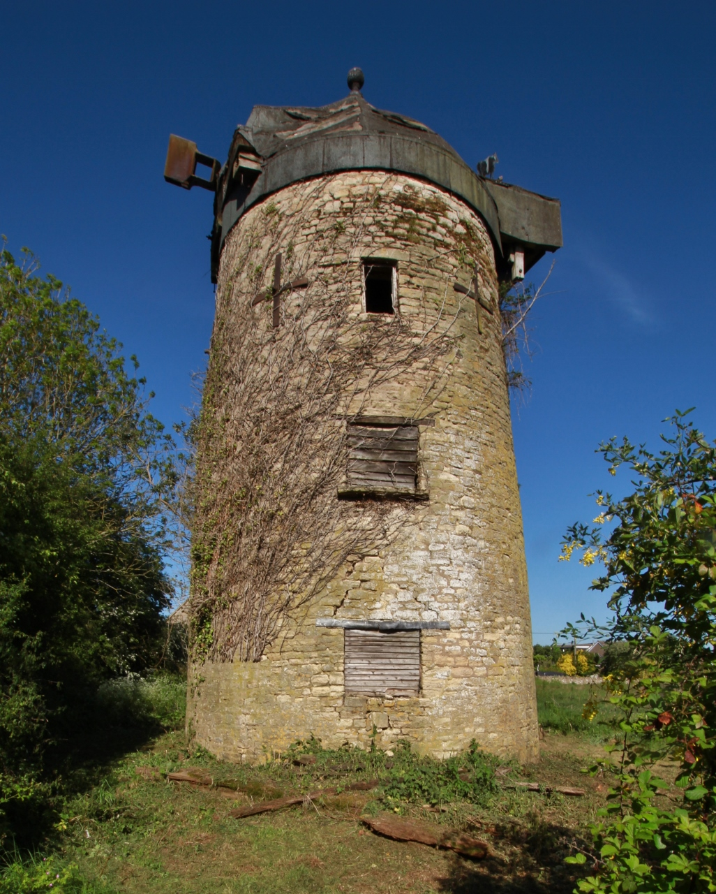 The derelict tower of North Leigh Windmill, Oxfordshire, seen from east-southeast